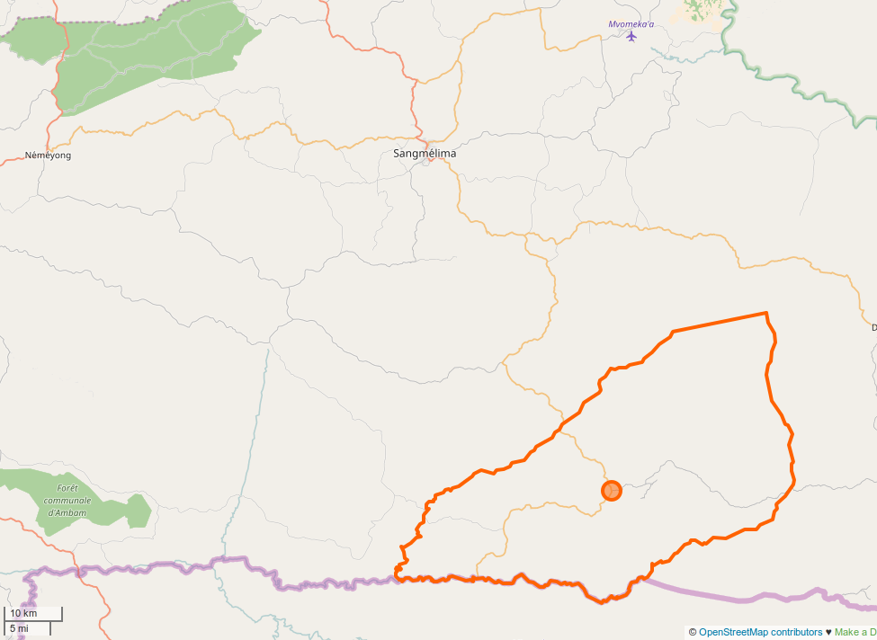 Oveng in Cameroon ː city boundaries with OSM. This map may be incomplete, and may contain errors. Don't rely solely on it for navigation.